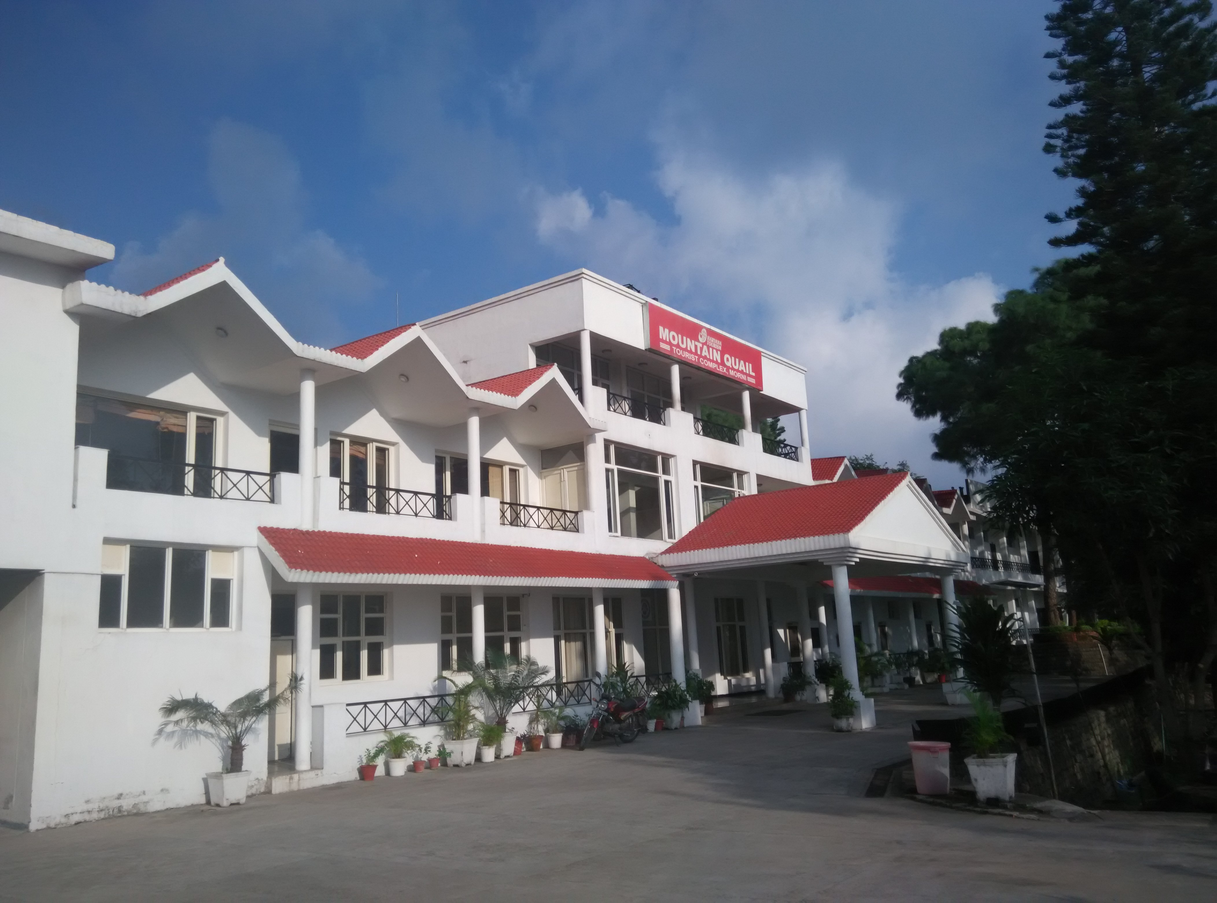 Mountain Quail : a Resort of Haryana Tourism at Morni Hills, Panchkula District